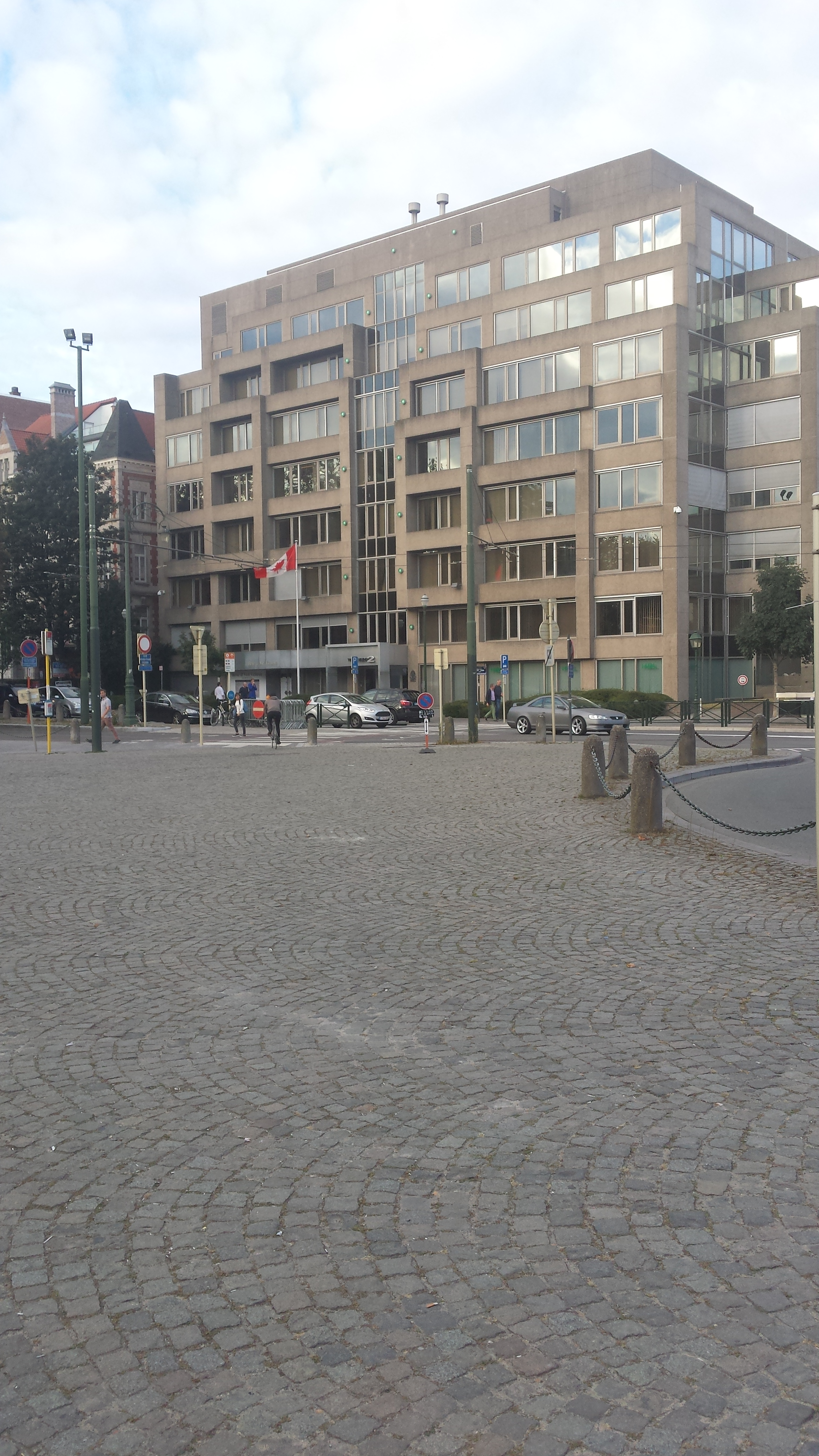 Former Canadia embassy in Etterbeck, Avenue de l'Yser 2.